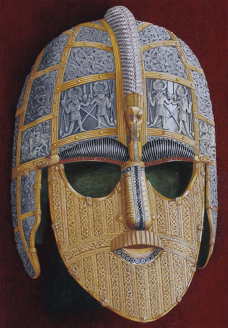 Cover illustration of the Ordnance Survey's 1966 second edition of Map of Britain in the Dark Ages, showing an artistic reconstruction of the Sutton Hoo helmet